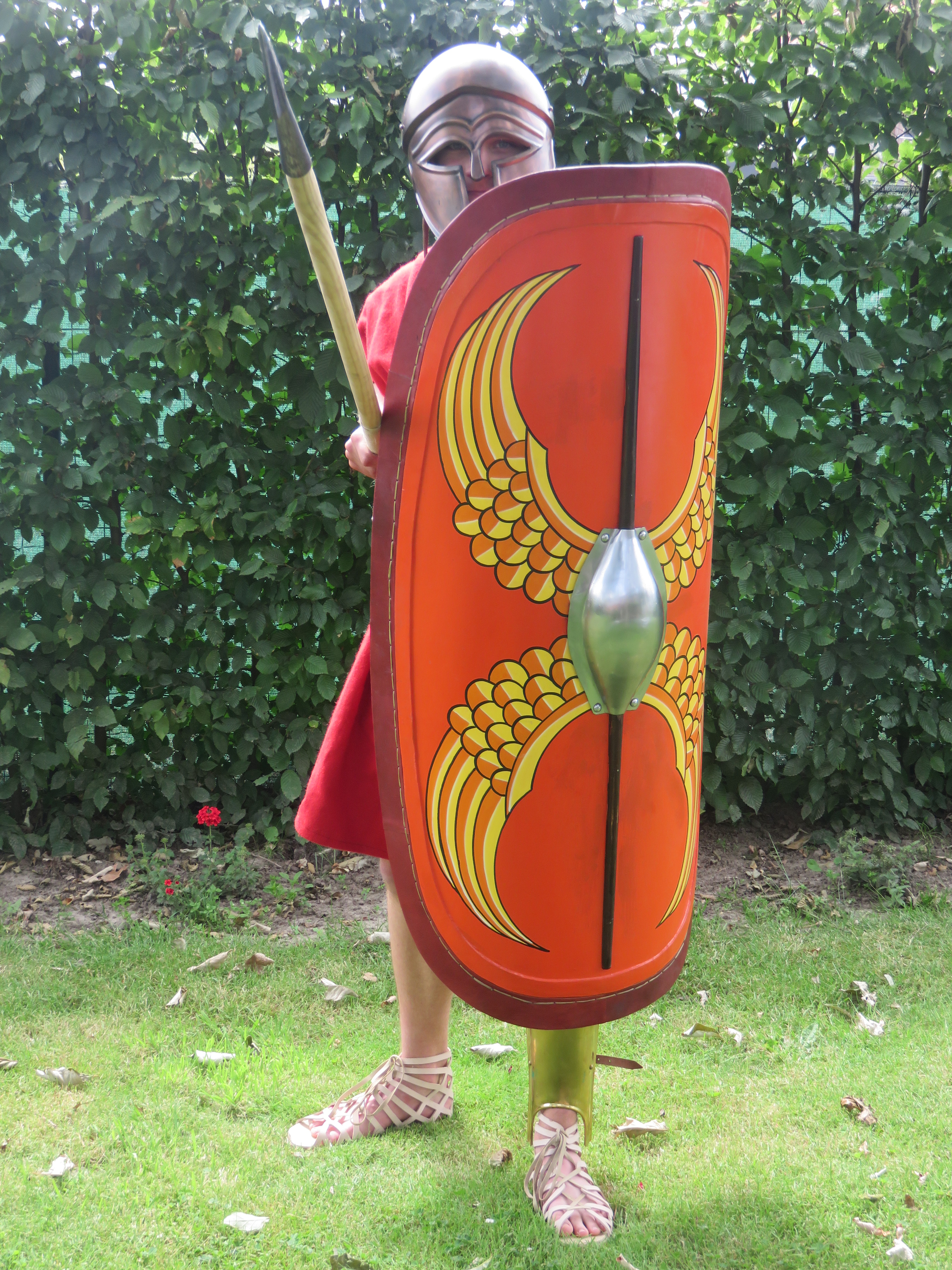 Early hastatus carrying a republic scutum and a hasta